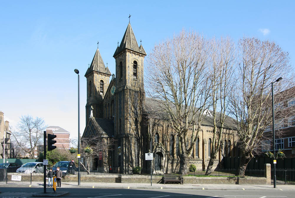 St John the Evangelist, Kilburn Lane